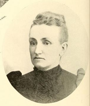 Blanche Mott